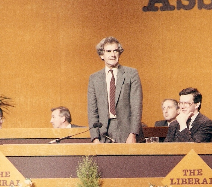 Adrian Slade addressing the Liberal Assembly in 1987